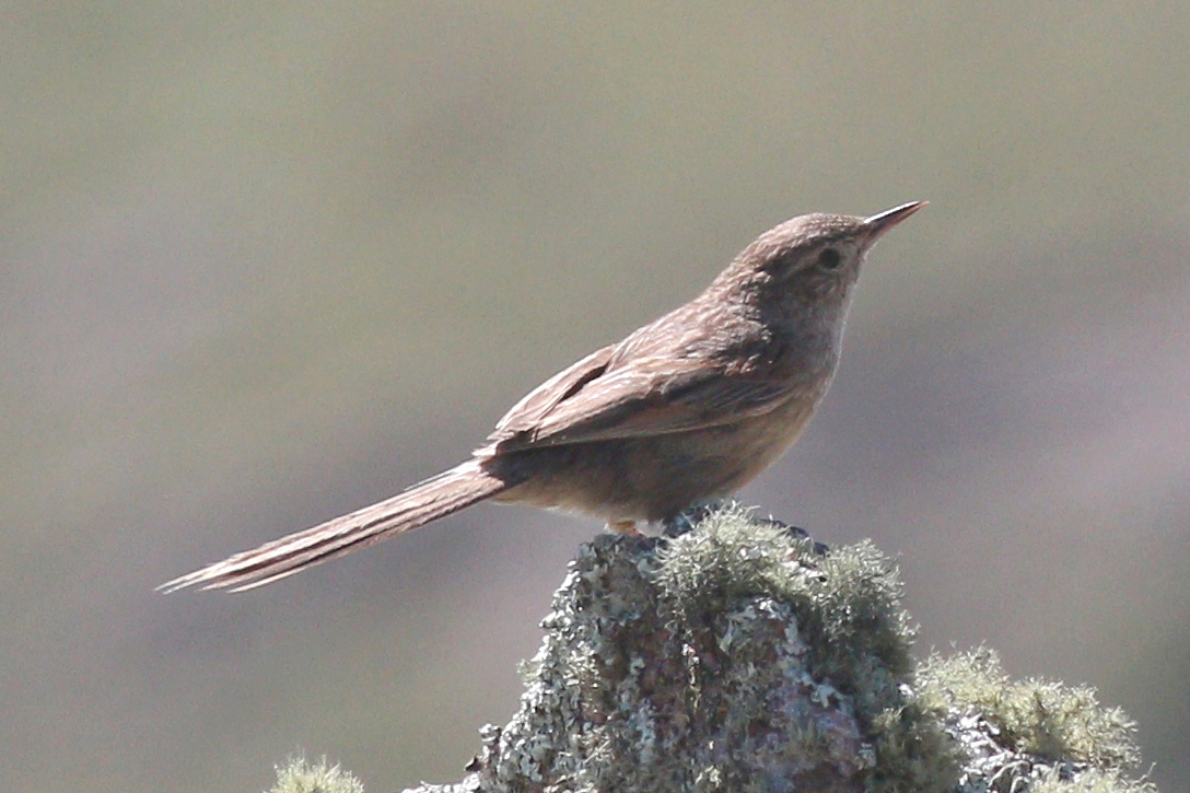 Asthenes sclateri, Puna Canastero, Argentina